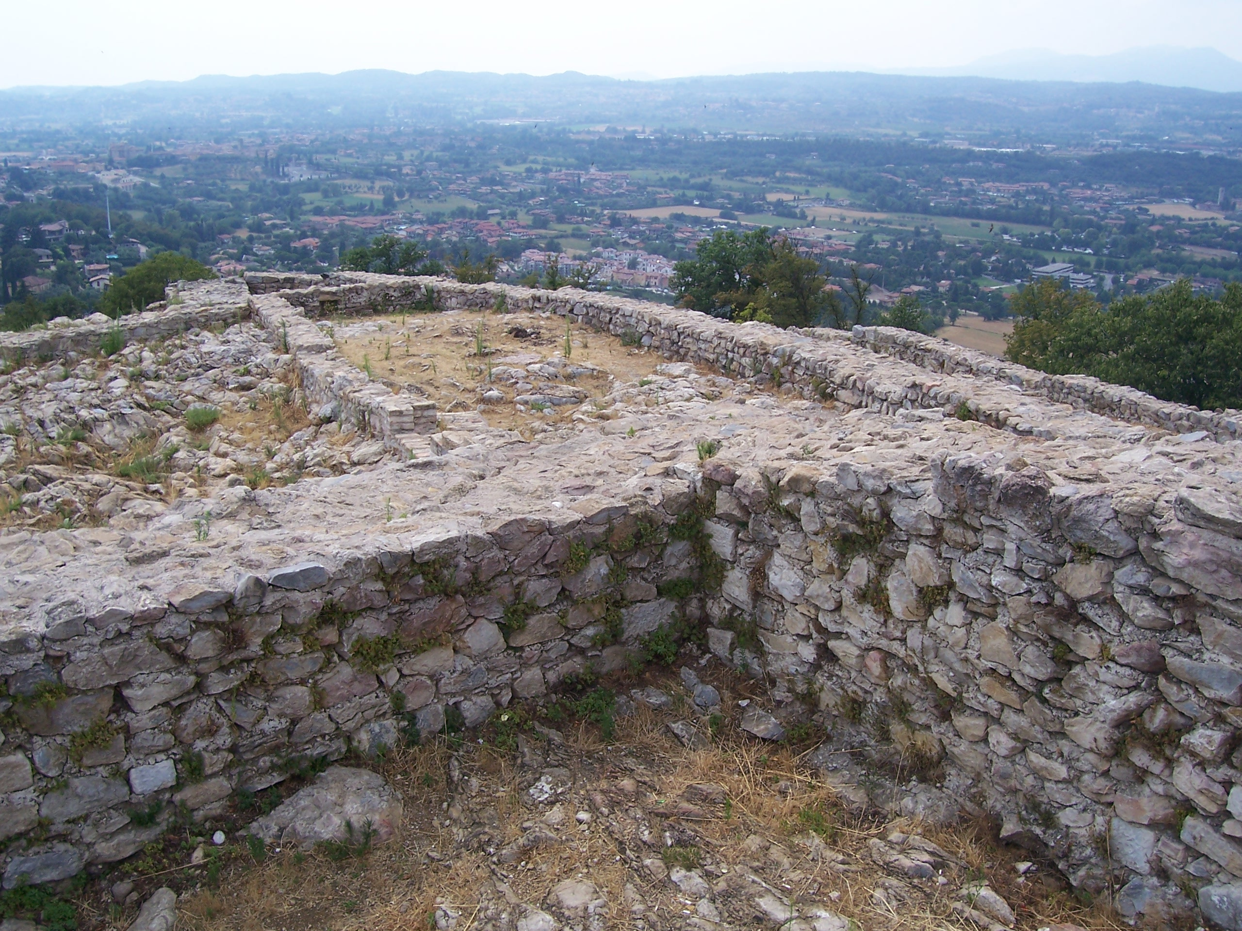 Rocca di Manerba